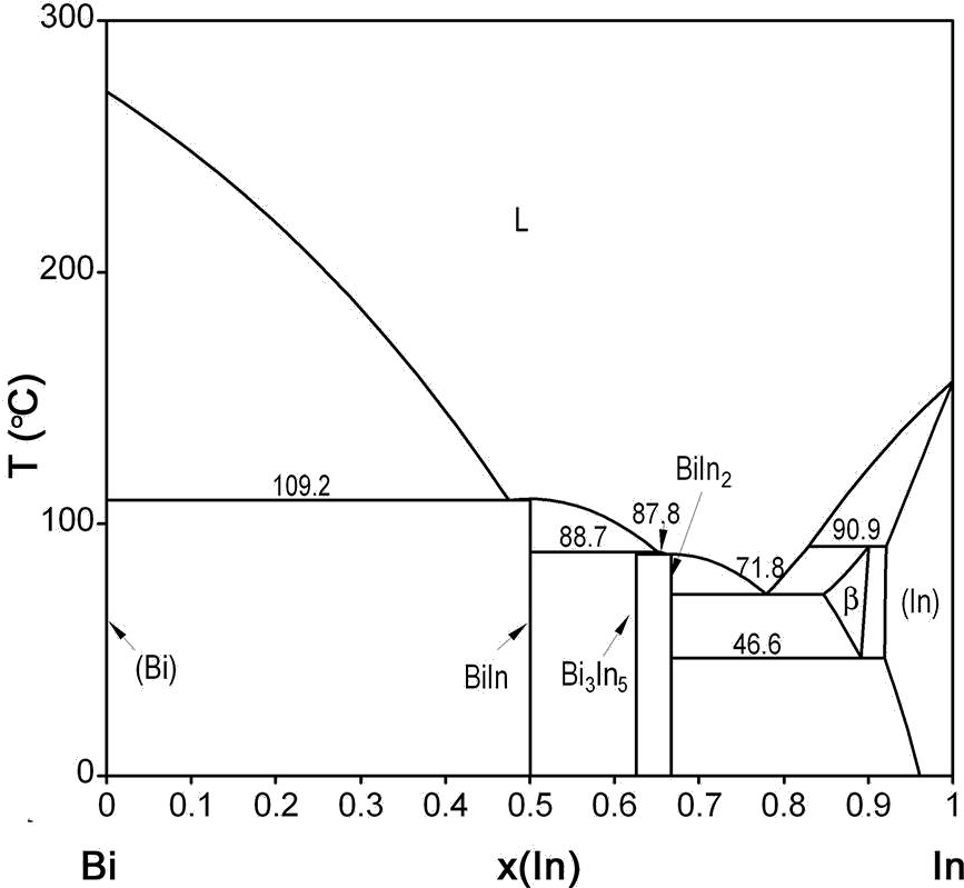 Calculated phase diagram of the Bi-In binary system using thermodynamic parameters from the COST 531 database